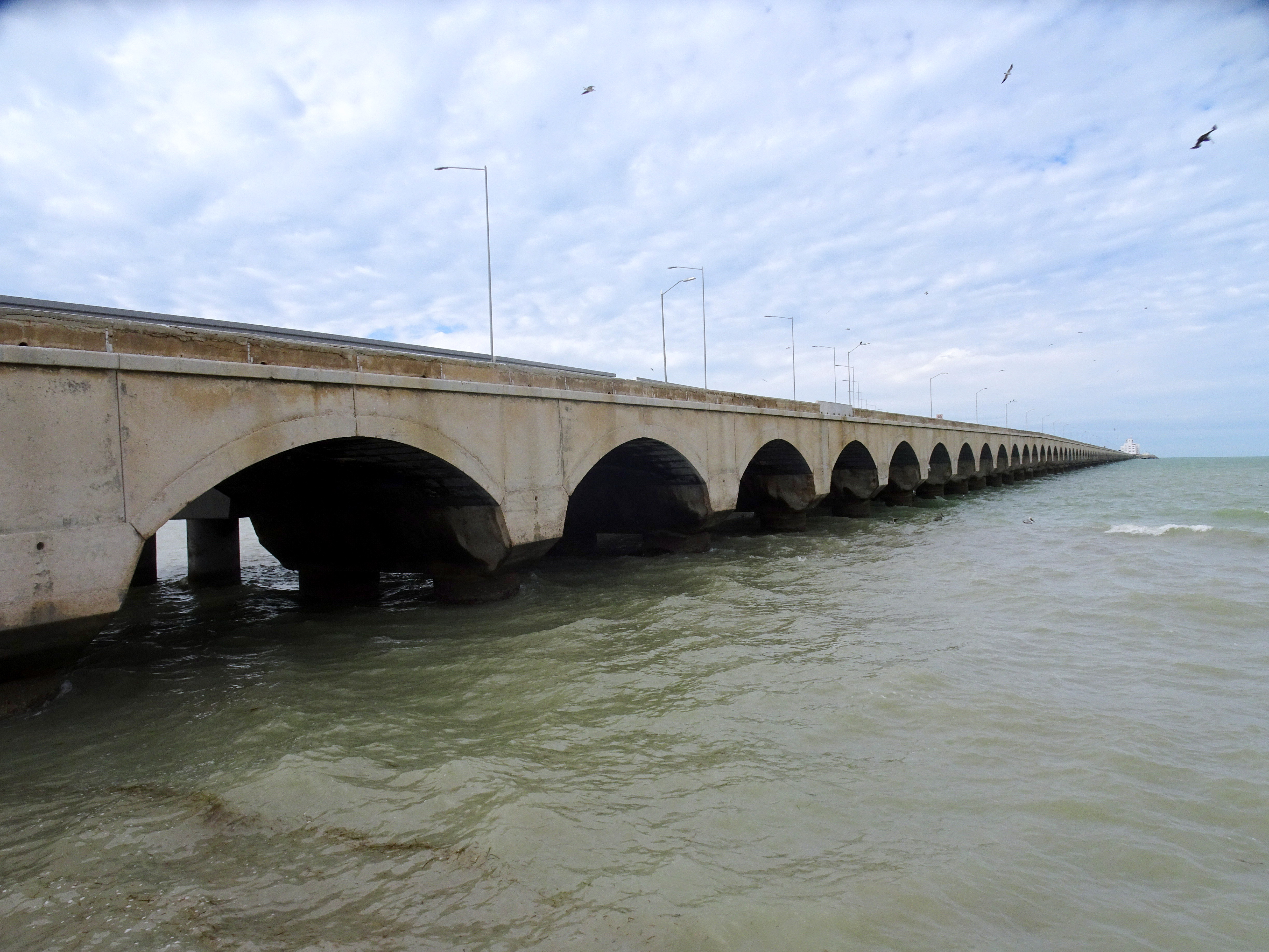 A view of the pier towards the port terminals from the Progreso beach; November 2018